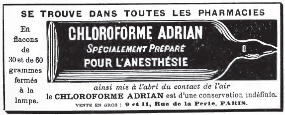 Ad for Adrian Chloroform, taken from the January 1906 edition of the Montreal Medical Journal.